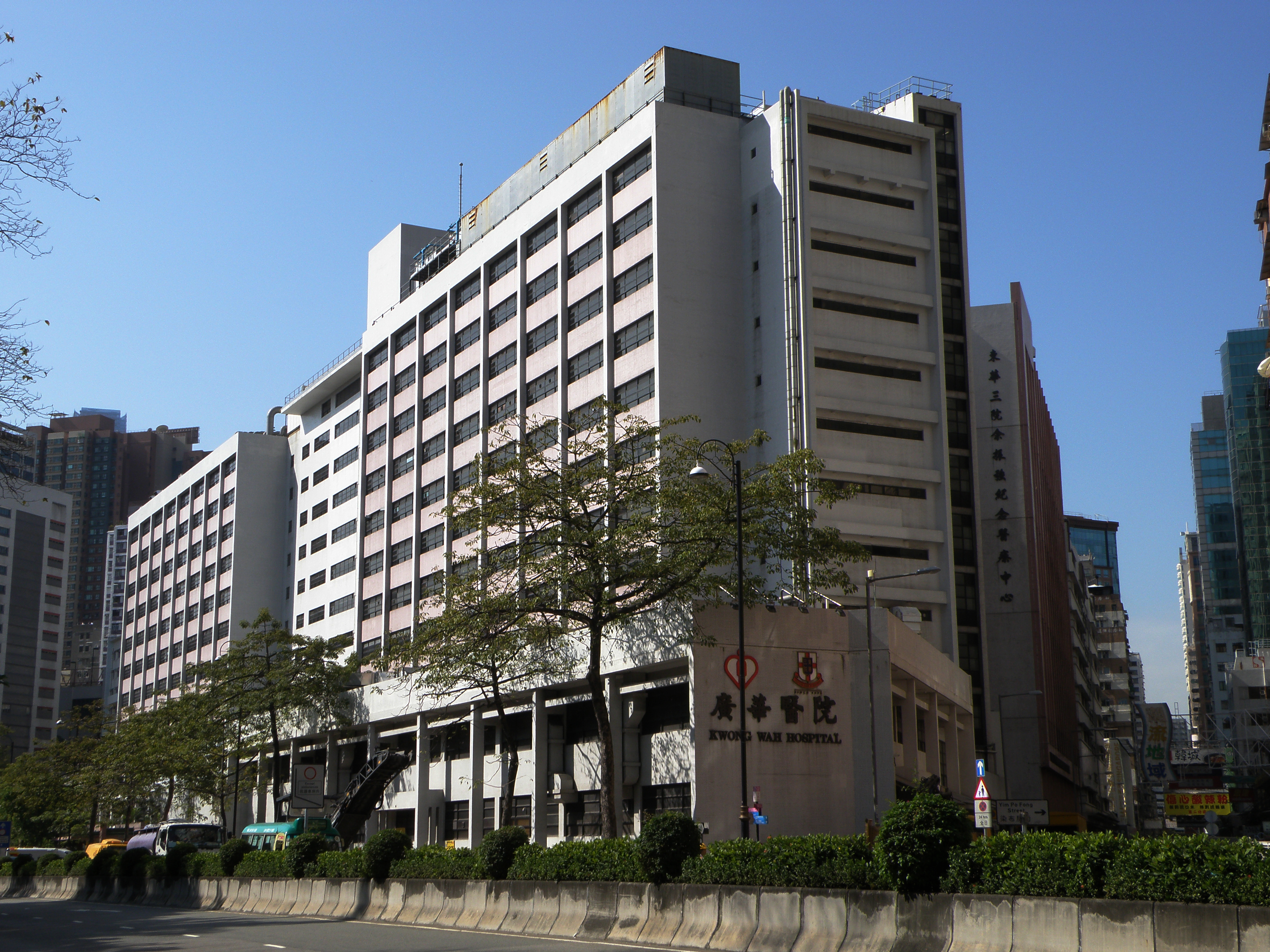 Kwong Wah Hospital in Yau Ma Tei, Hong Kong.